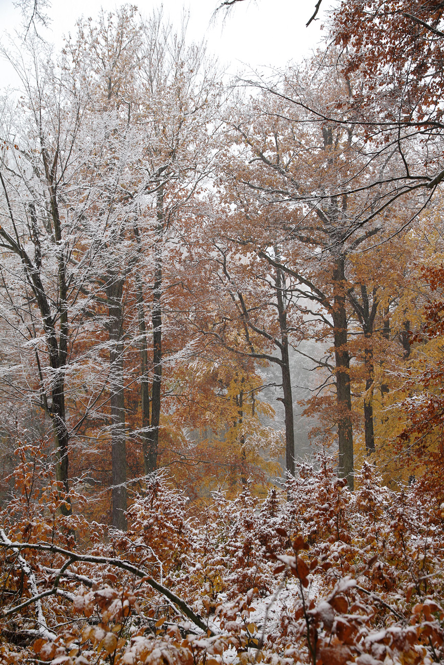 Křivoklátsko - časný sníh zastihl stromy neopadané. Les v NPR Týřov.